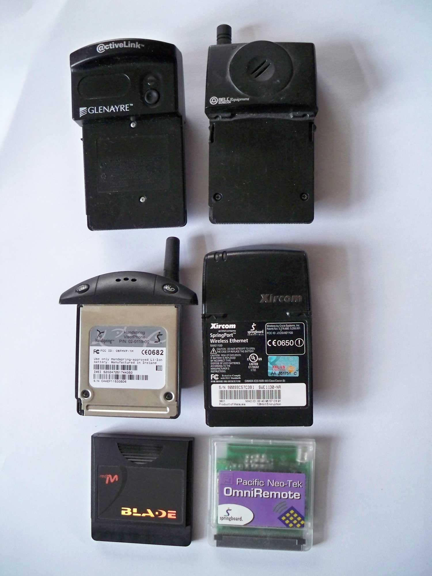 Springboard Expansion Modules for PDA Handspring Visor: Wireless - Messaging, GSM and CT1+ Telephone, Bluetooth, WiFi, Infrared Remote